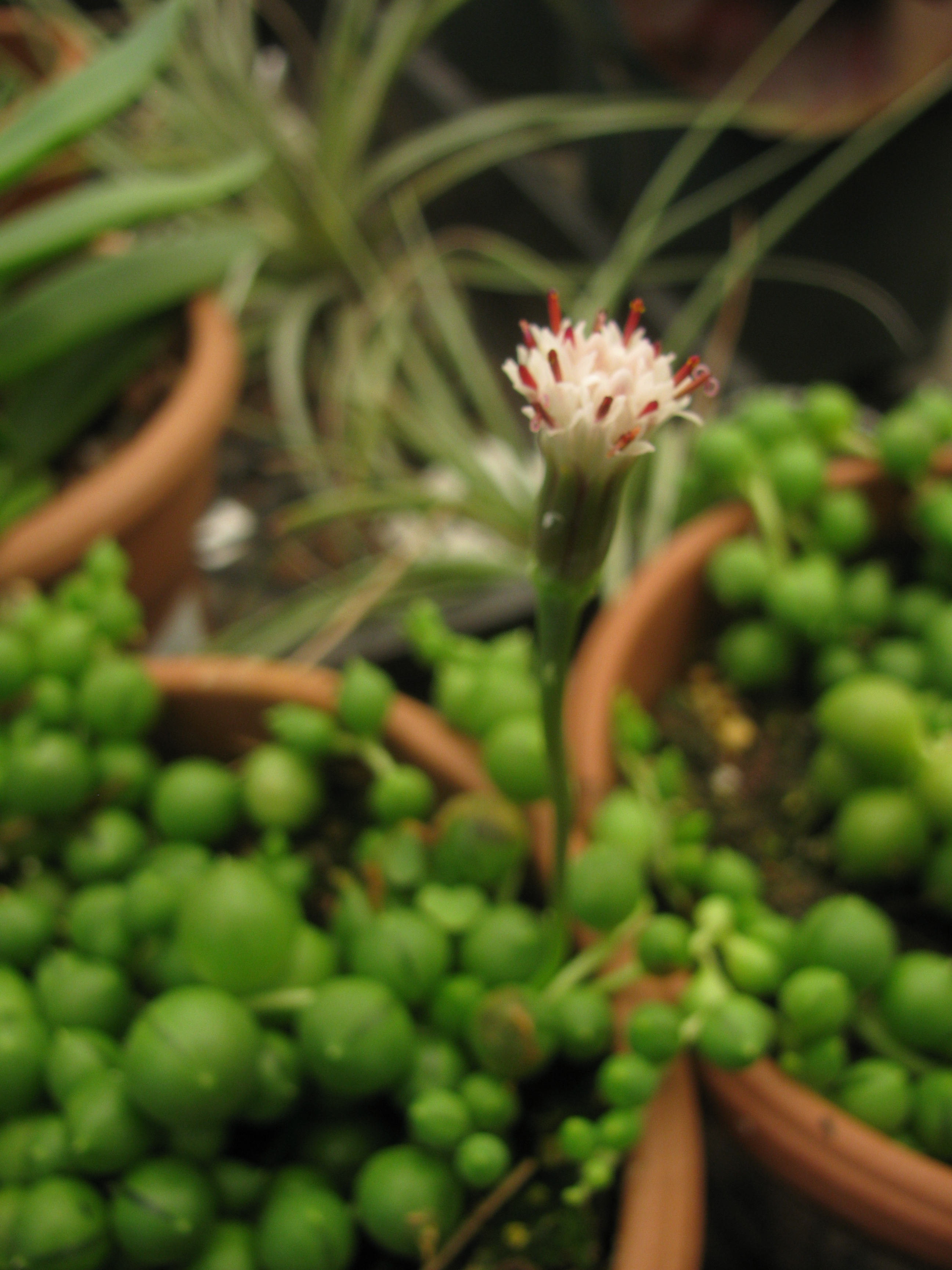 Senecio rowleyanus (Bead plant, string of beads) Flowers at Walmart Nursery Kahului, Maui, Hawaii. June 13, 2012 #120613-9660 Image Use Policy